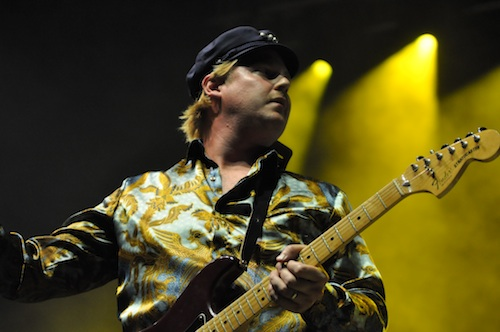 Tim Heidecker performing as Tim & Eric Awesome Show, Great Job! (photo by Scott Dudelson)